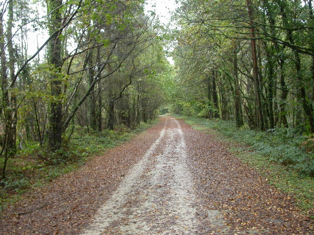 Merley, trackbed Trackbed of the old Southampton to Dorchester Railway, seen here passing through Delph Woods. The line closed in 1974, and is now a cycle trailway.